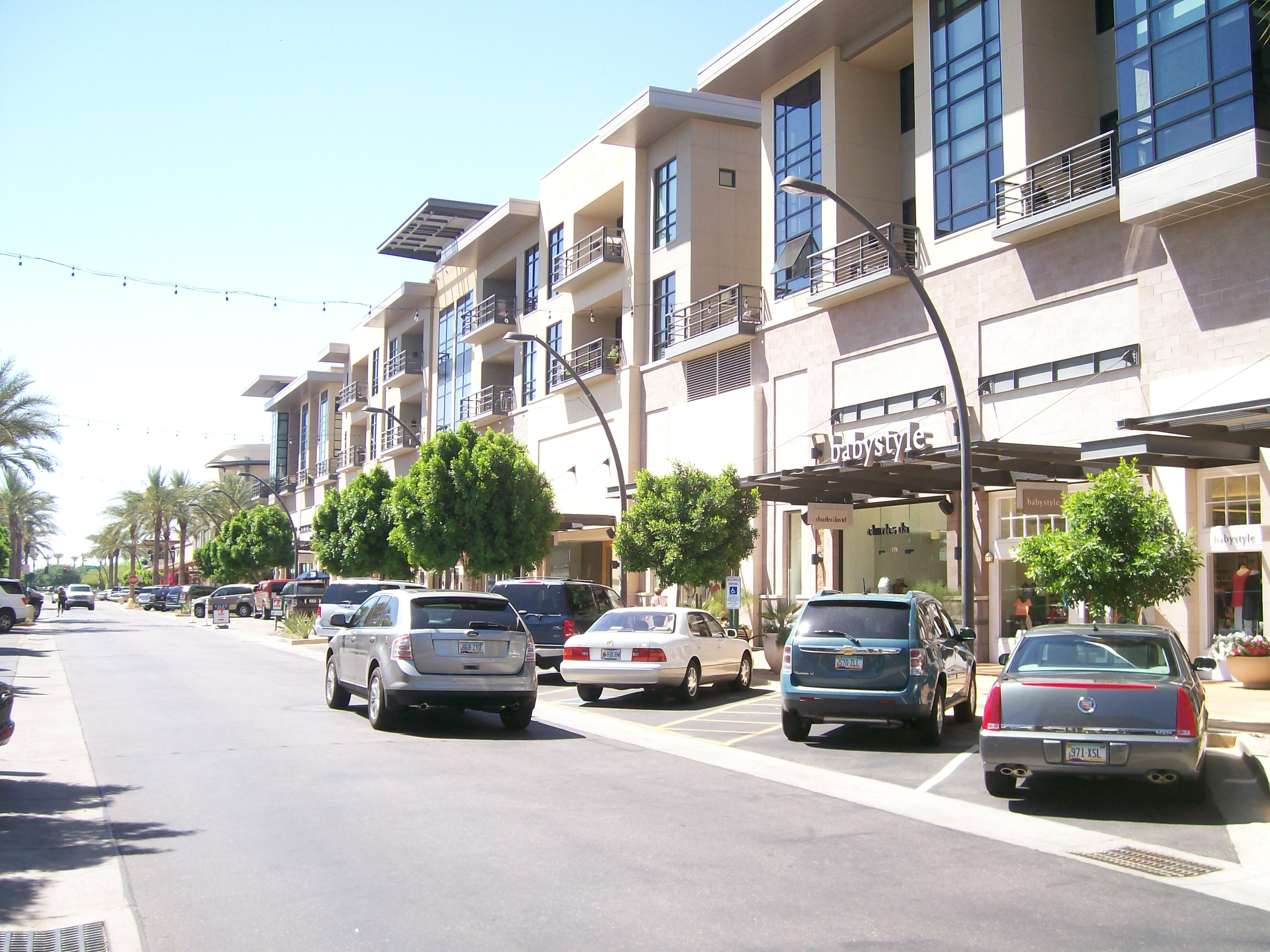 Photo looking west on the Main Street in Kierland Commons in Phoenix, Arizona